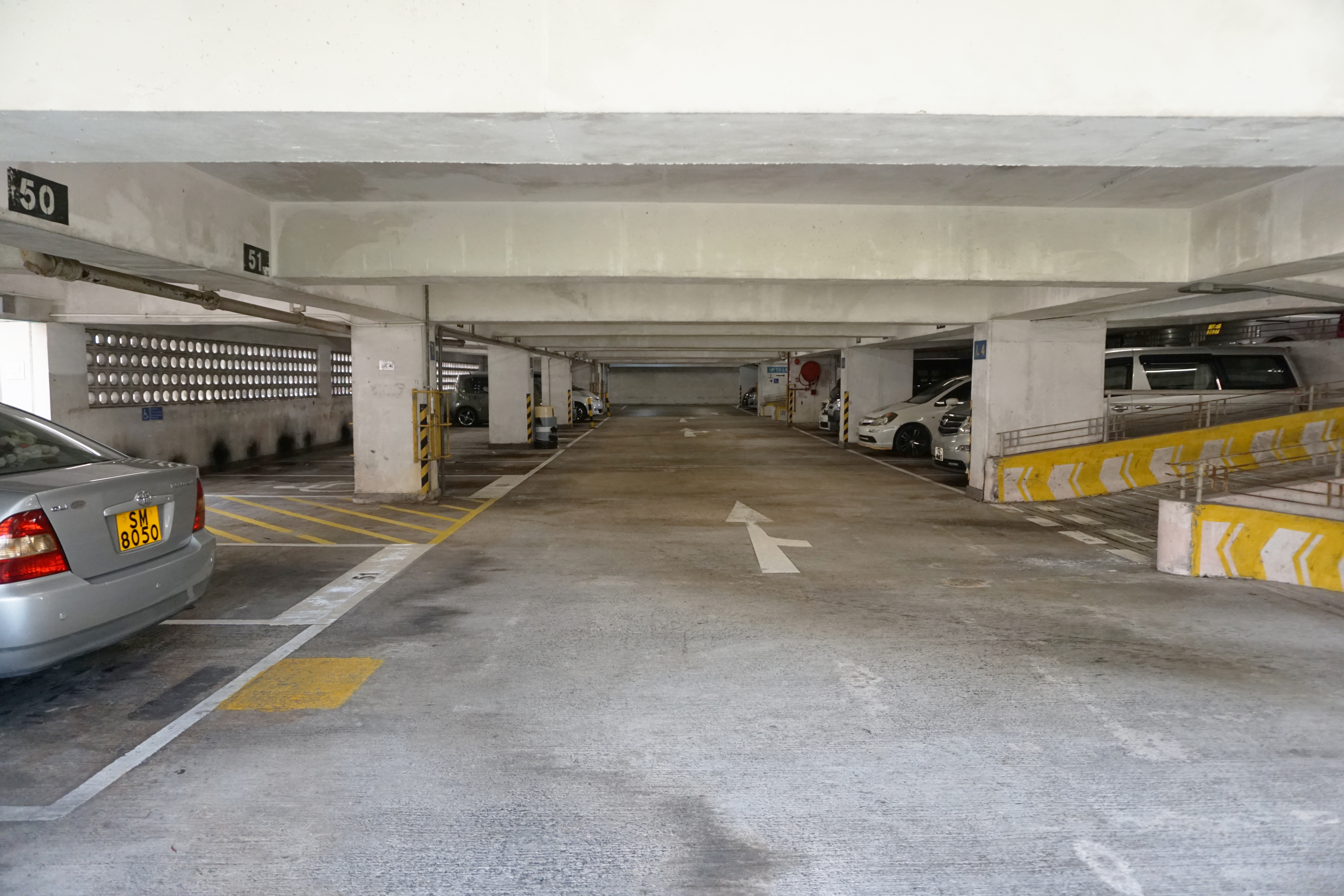 On Yam Estate in Shek Yam, Hong Kong.